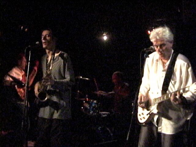 Medium Medium performing at the Knitting Factory NYC